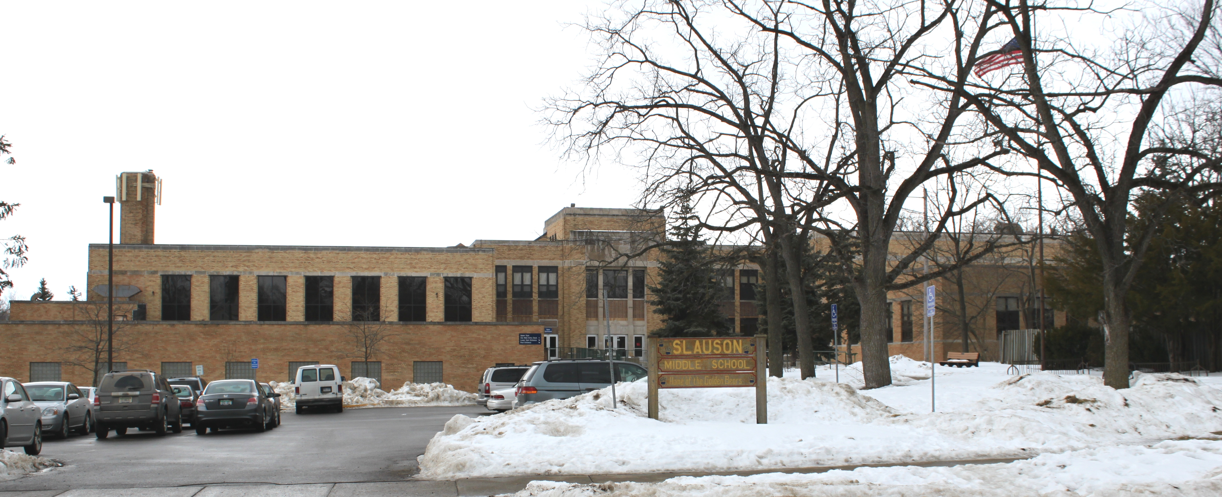 Slauson Middle School, 1019 West Washington, Ann Arbor, Michigan